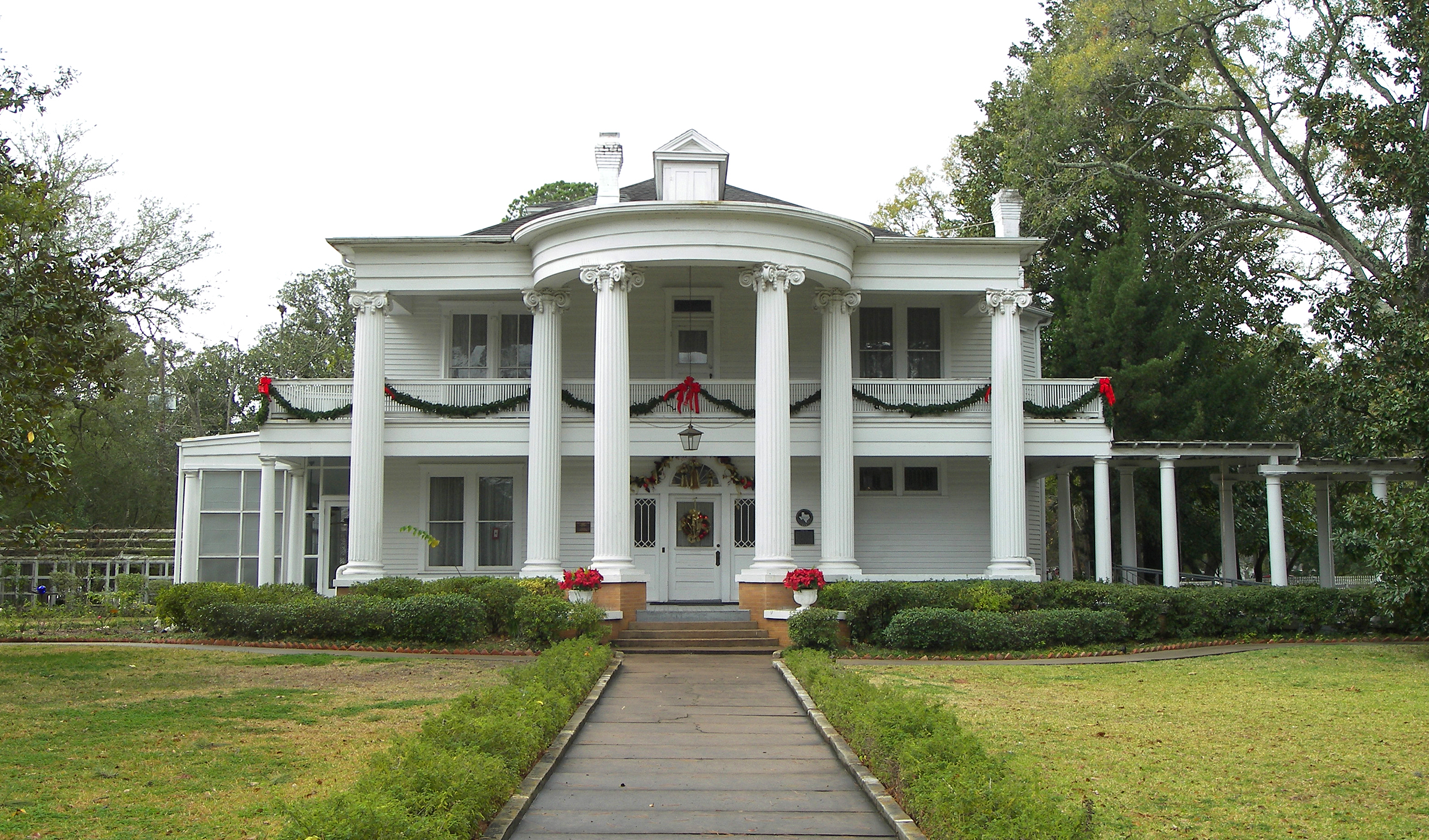 The John M. and Lottie D. Moore House in Richmond, Texas, United States. The building was listed on the National Register of Historic Places on February 9, 2001.